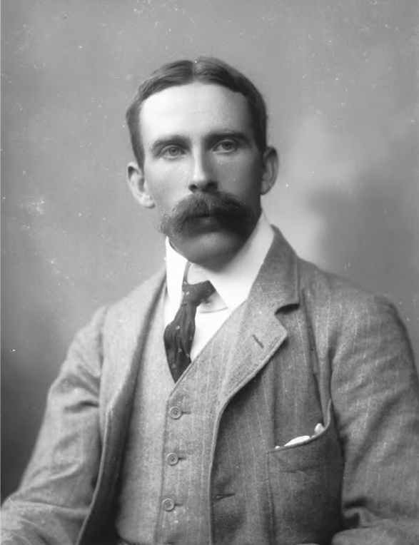 Photograph of the British botanist Arthur George Tansley (1871–1955).